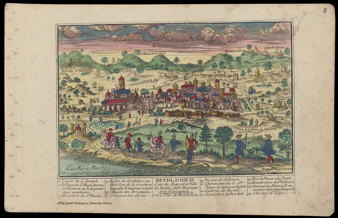 Bethlehem as it was imagined by the map creator